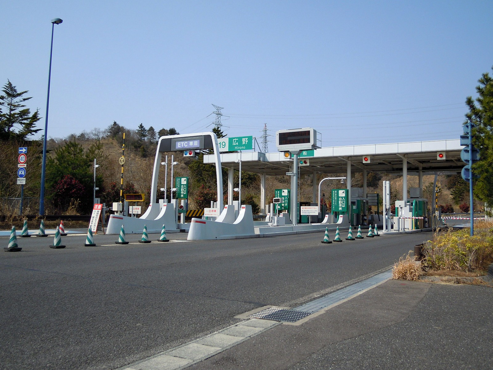 Hirono Interchange on the Joban Expressway in Hirono Town, Fukushima Prefecture, Japan